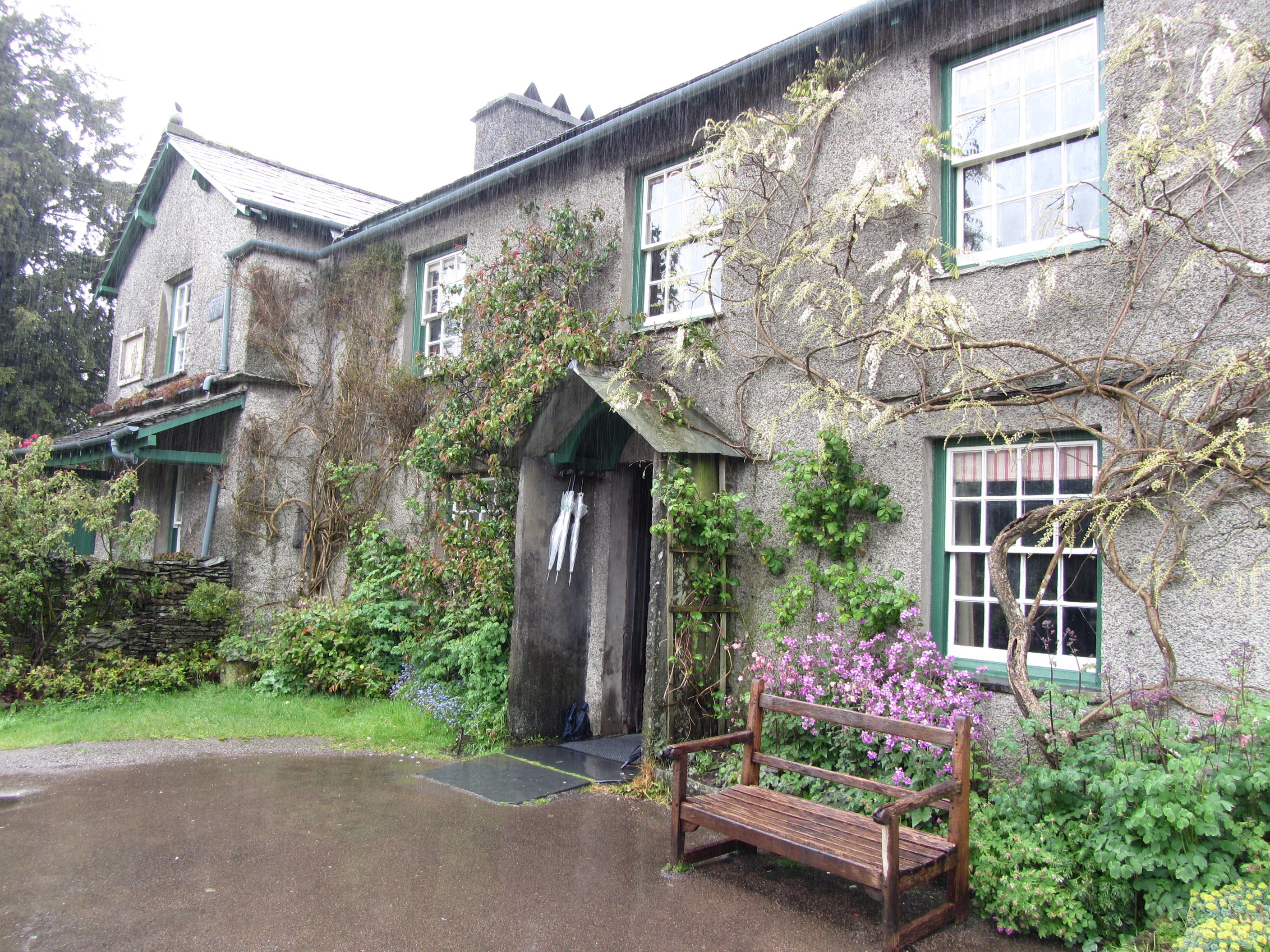 Beatrix Potter's farmhouse, "Hill Top", at Near Sawrey, near Windermere, England. Umbrellas are provided for visitors.